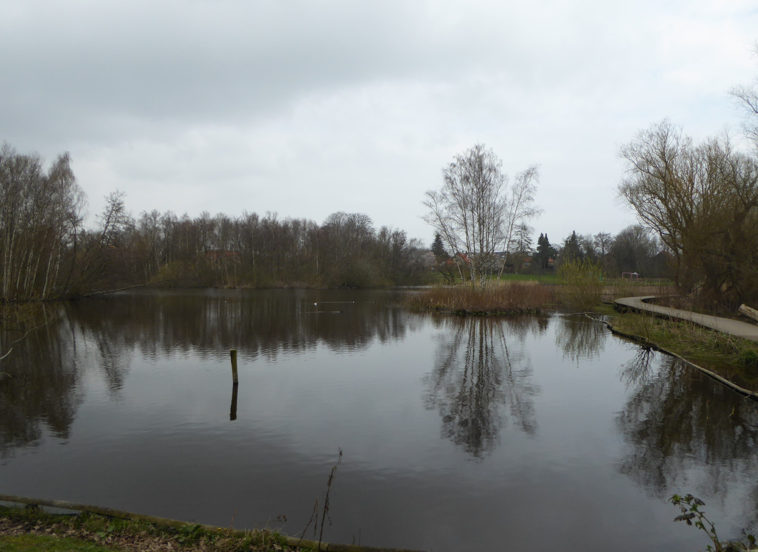 The parc and moor Nymosen in Vangede in Copenhagen.